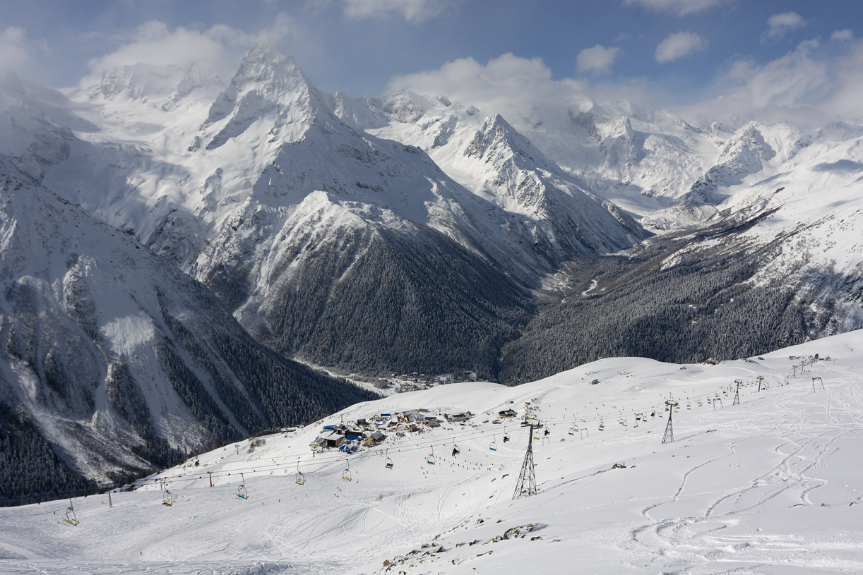 Dombai, general view of skiing routes from the Yugoslavka skiing route.